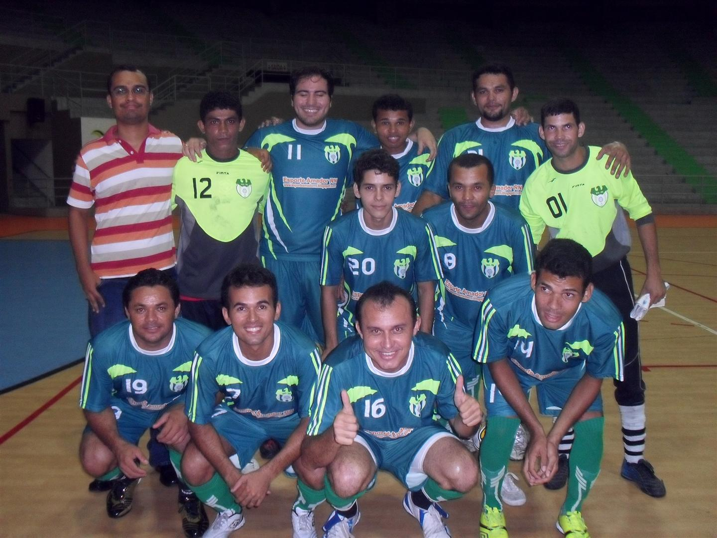 SEA Team Cup 2011 RN